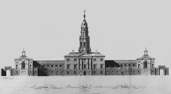 Architectural design by Thomas Ivory for the Blue Coat School, Dublin, 1772 competition.